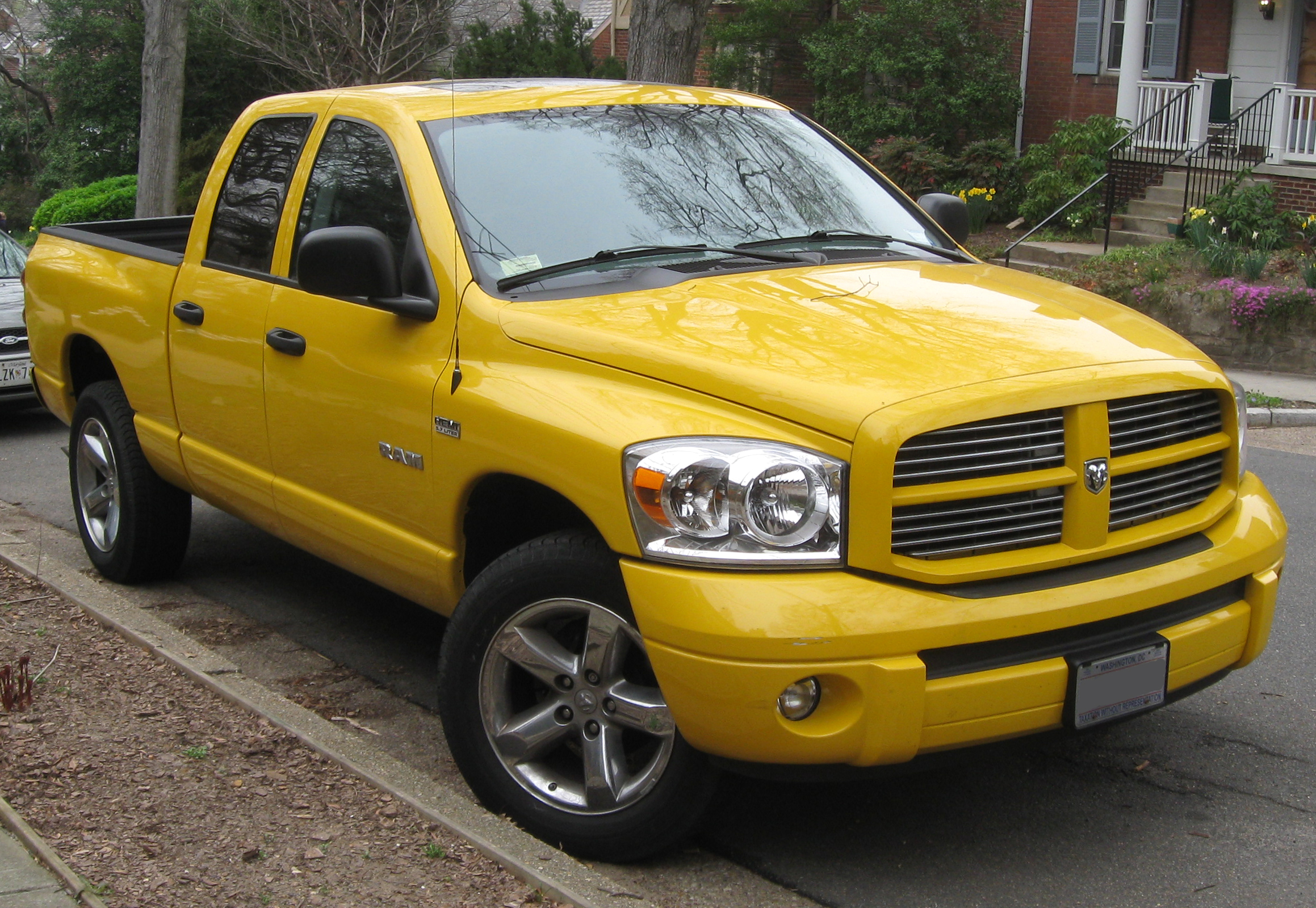 2008 Dodge Ram photographed in Washington, D.C., USA.